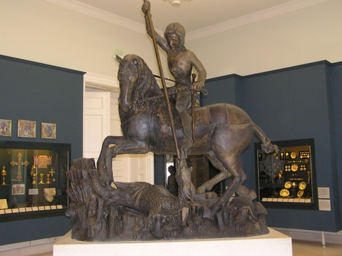 Sculptute of St. George, in the Hungarian National Museum, Budapest. Szaniszlo Berczi. Image collection of Eurasian art images of Szaniszlo Berczi 2003 Budapest